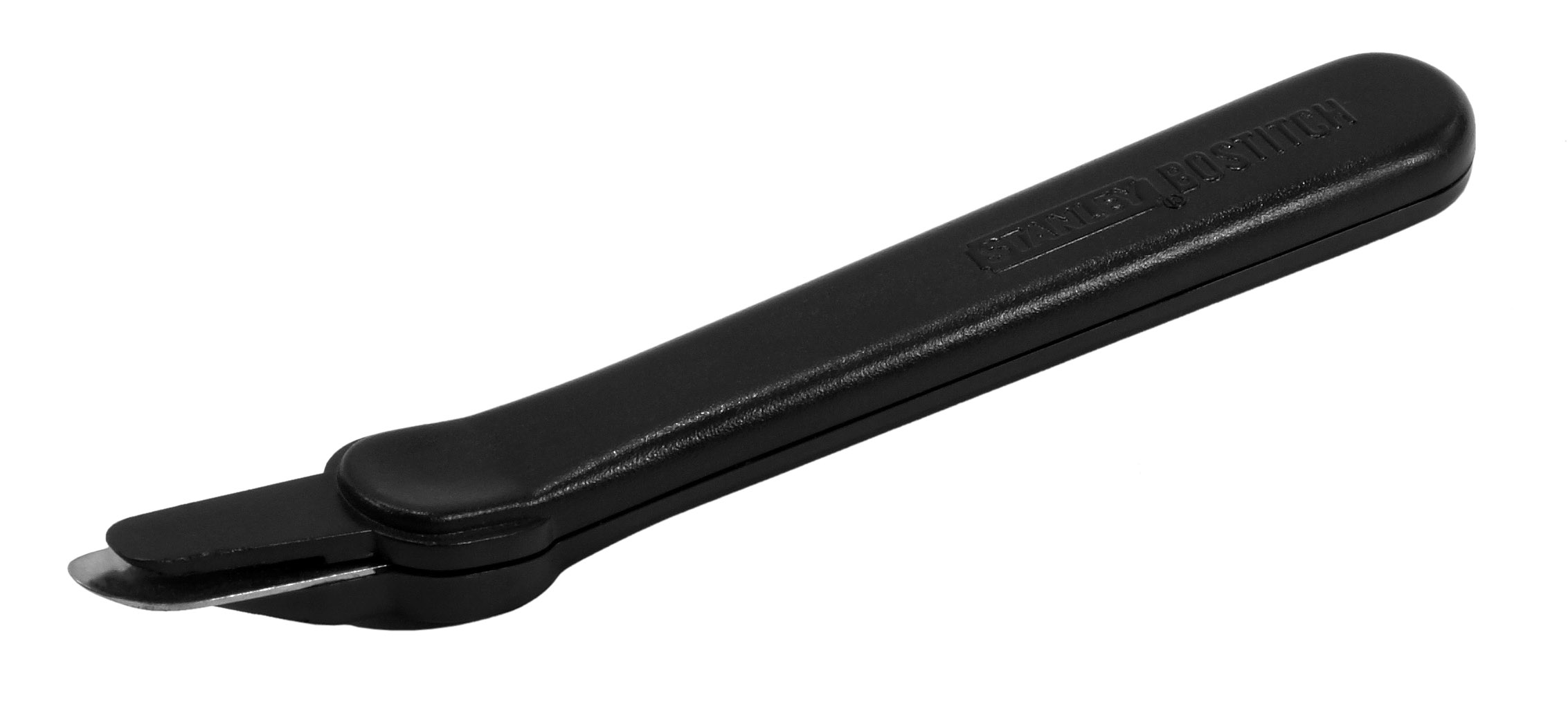 A flat staple remover, used more for carpentry staples.